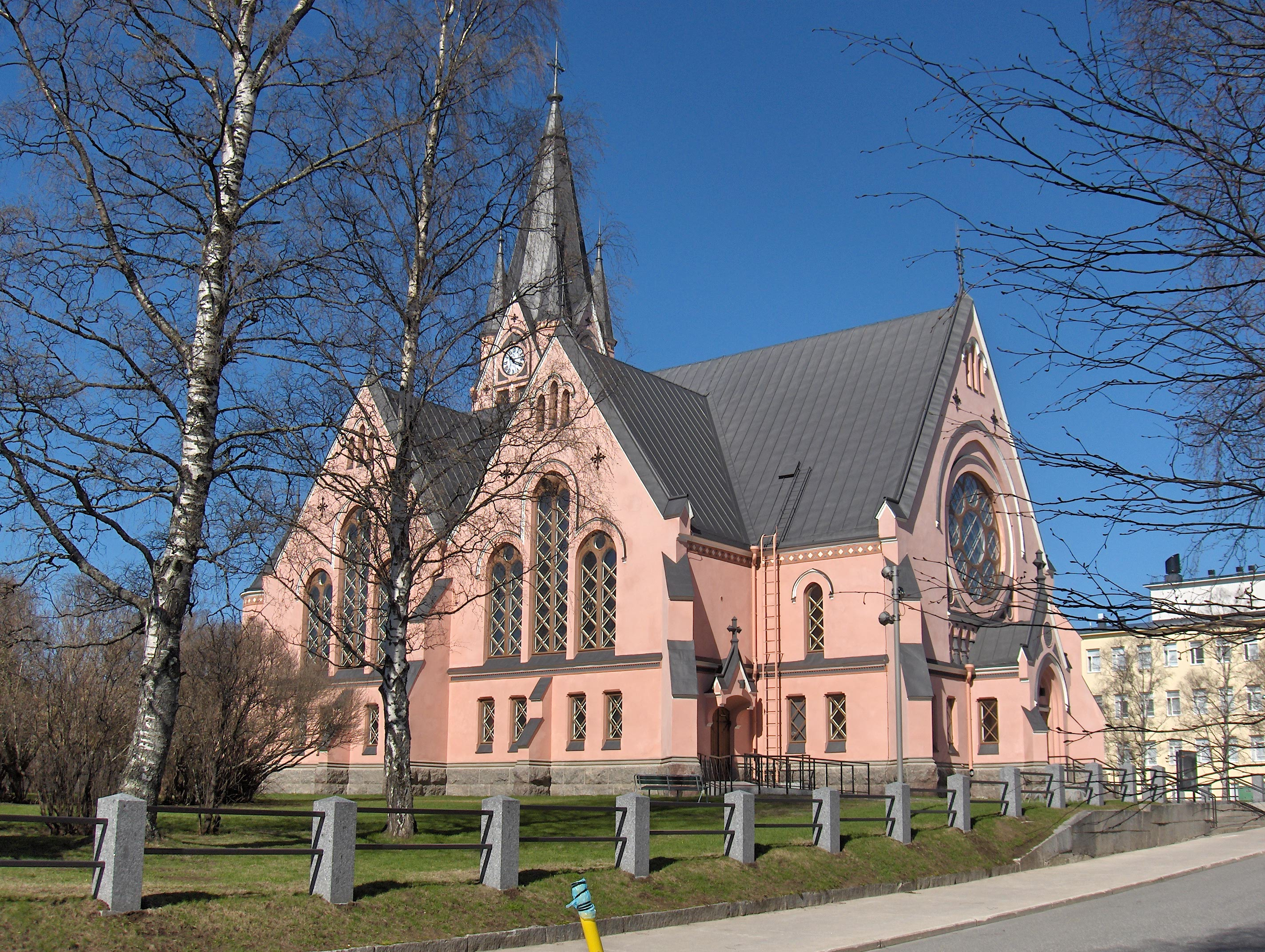 Kemi Church (Evangelical Lutheran), Kemi, Finland